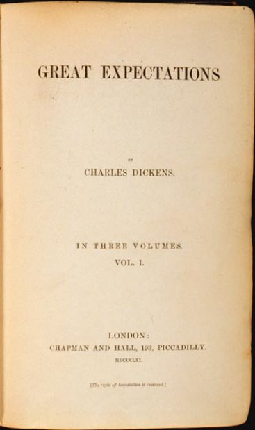 title page of the first edition book of Great Expectations by Charles Dickens